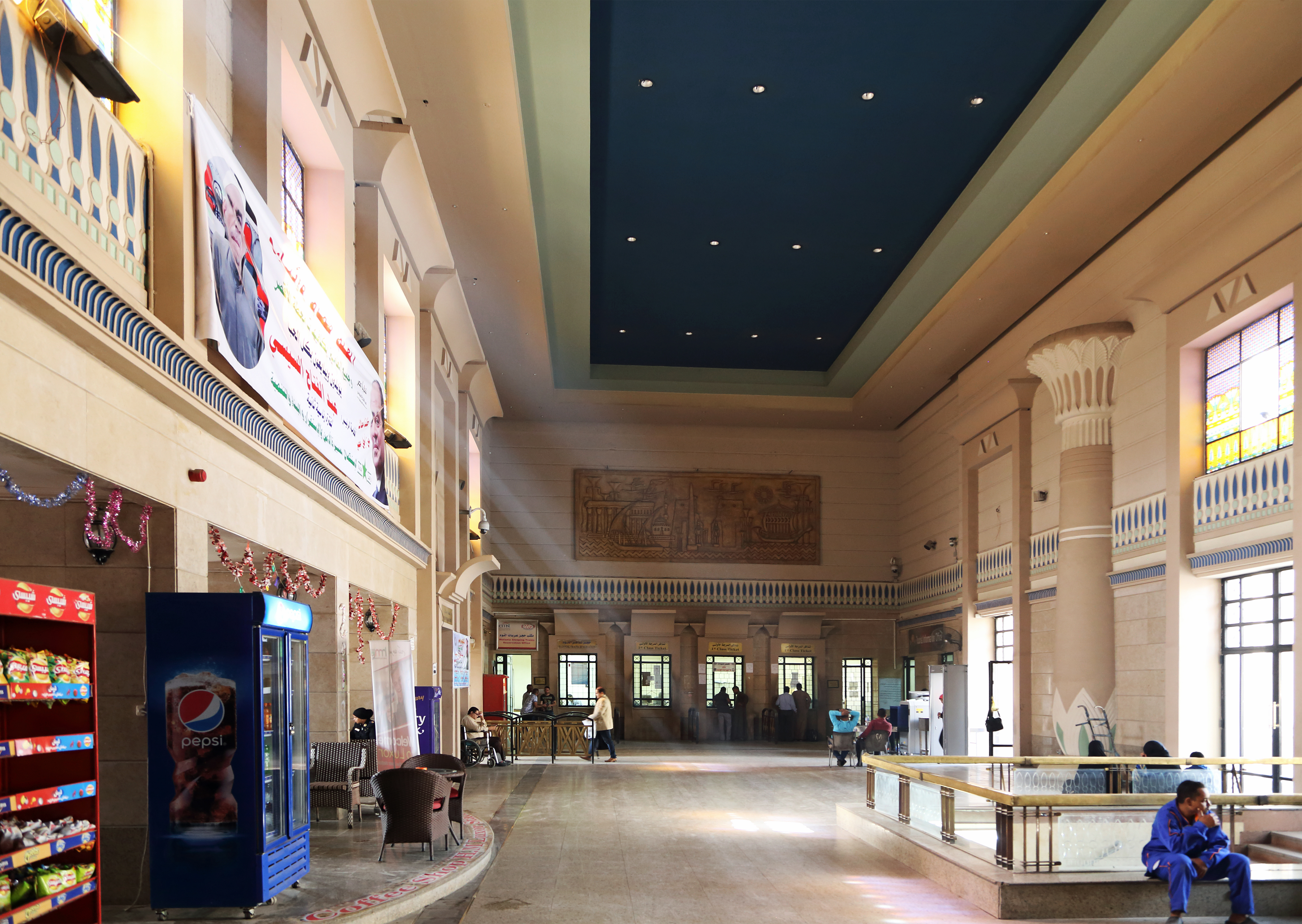 Interior of Luxor train station (Egypt)